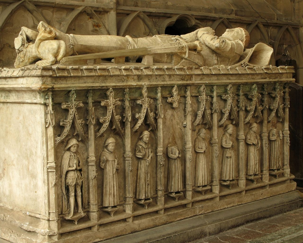 St Mary and St Barlok parish church, Norbury, Derbyshire: monument to Nicholas Fitzherbert, died 1473